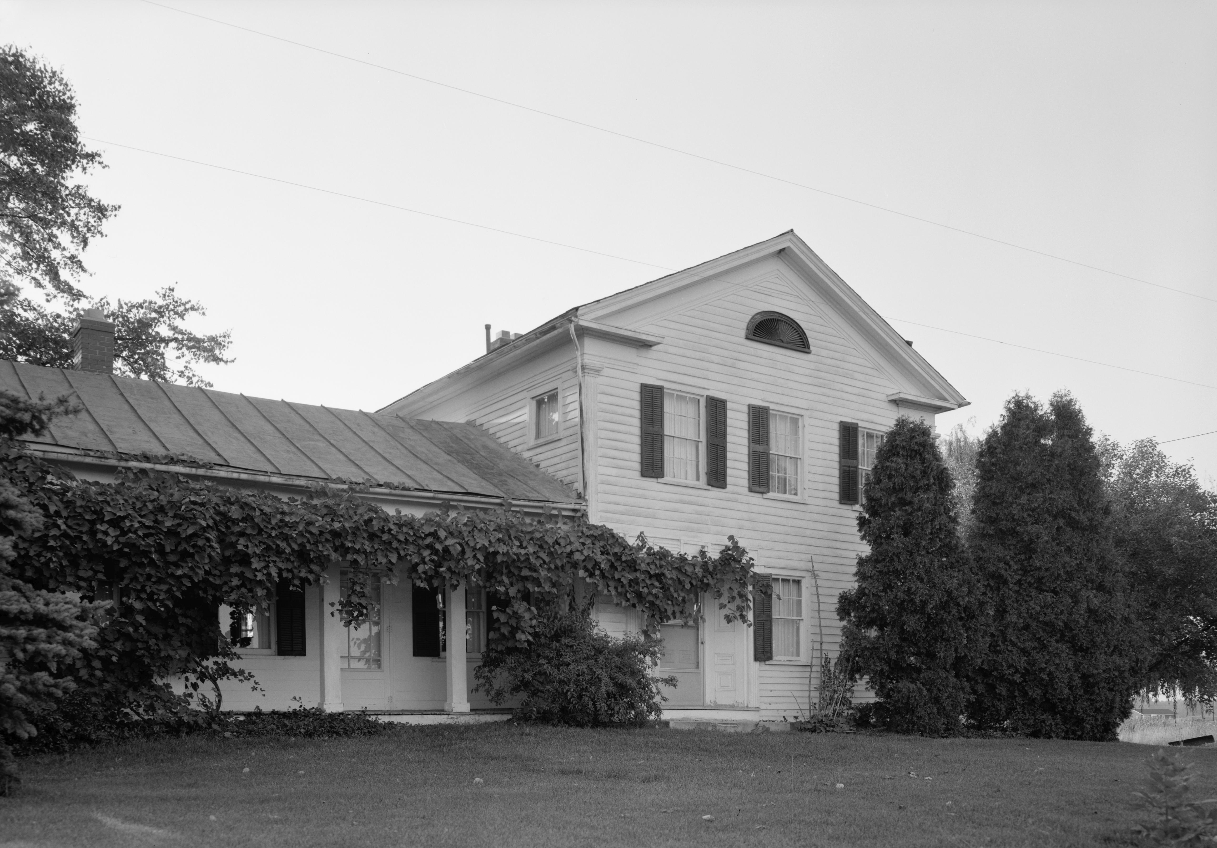 Front of the Darlon Allen House, located along State Route 58 south of Wellington in Huntington Township, Lorain County, Ohio, United States. Built in 1830, it is listed on the National Register of Historic Places.